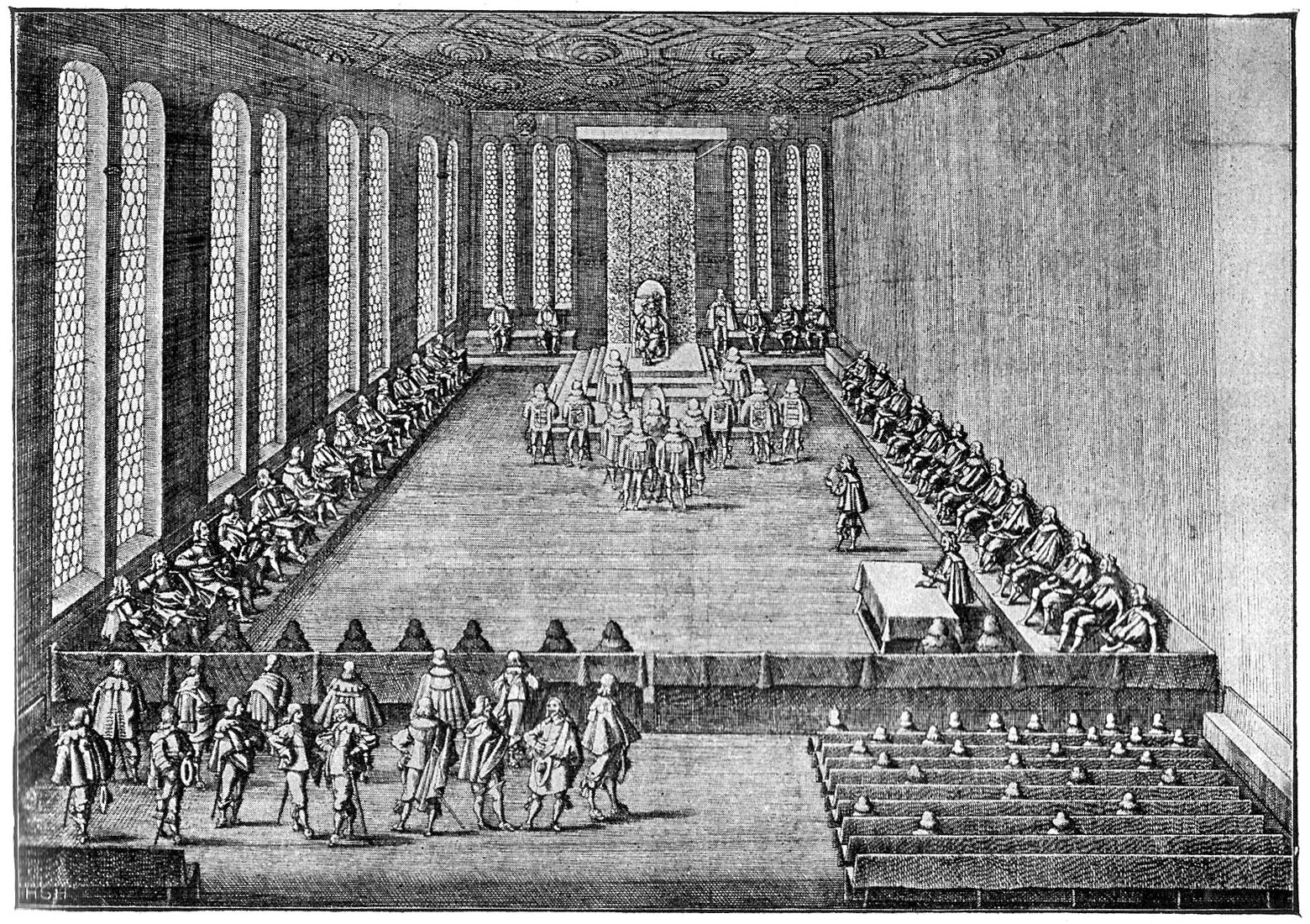 Regensburg (Bavaria): Meeting of the parliament Reichstag in 1640. Engraving by Matthäus Merian, Theatrum Europaeum